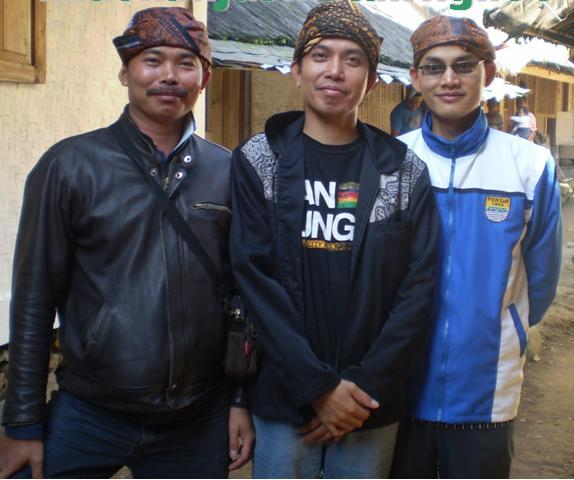 Darpan and his friends